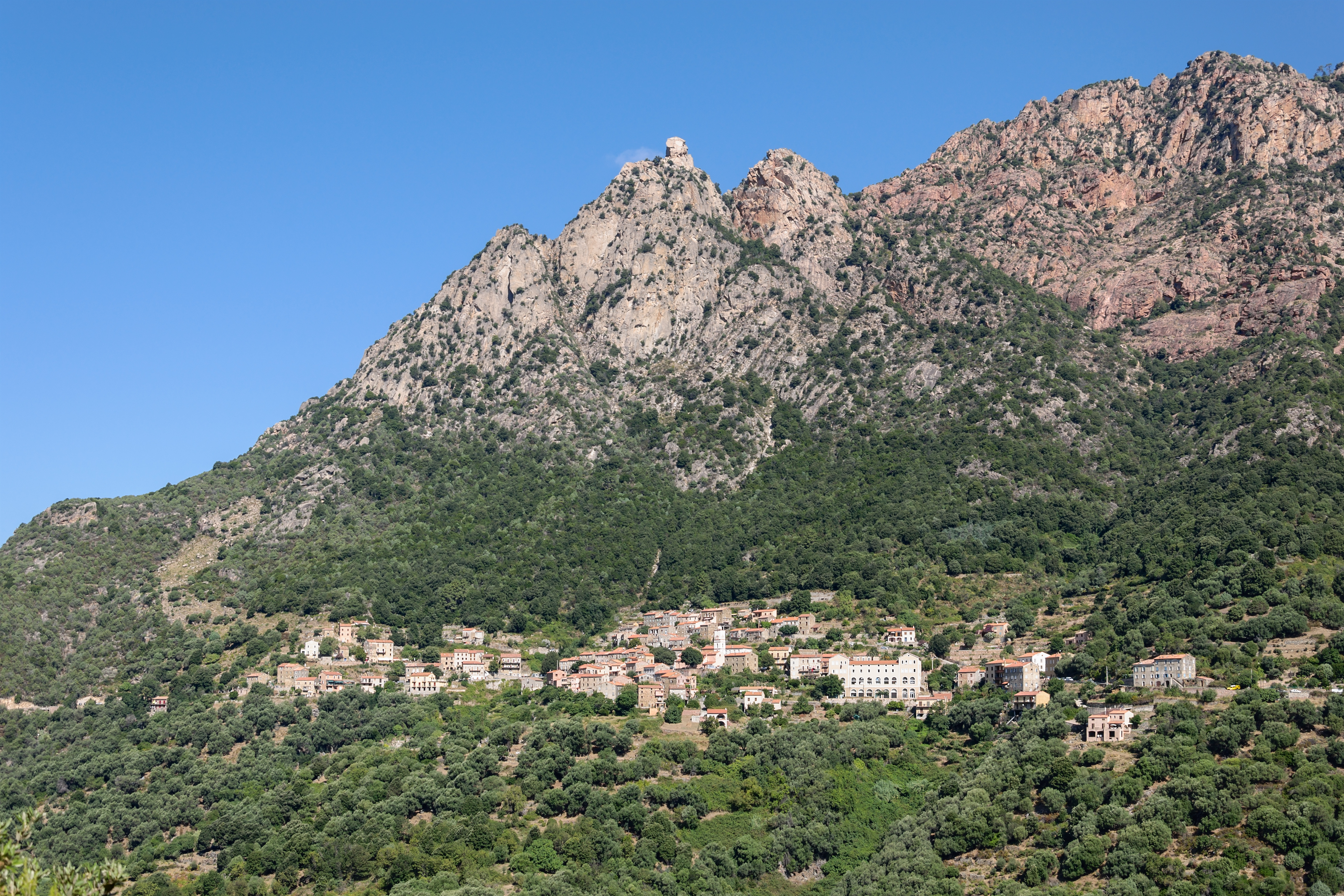 Ota, Southern Corsica, France: general view of the village, overlooked by the mount Capu d'Ota